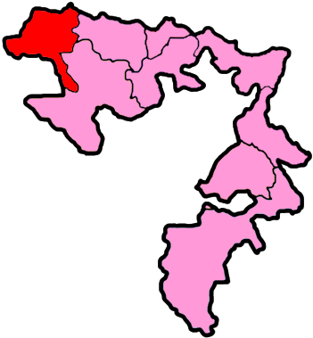 The first electoral unit of Republika Srpska (NSRS) shown within Bosnia and Herzegovina.